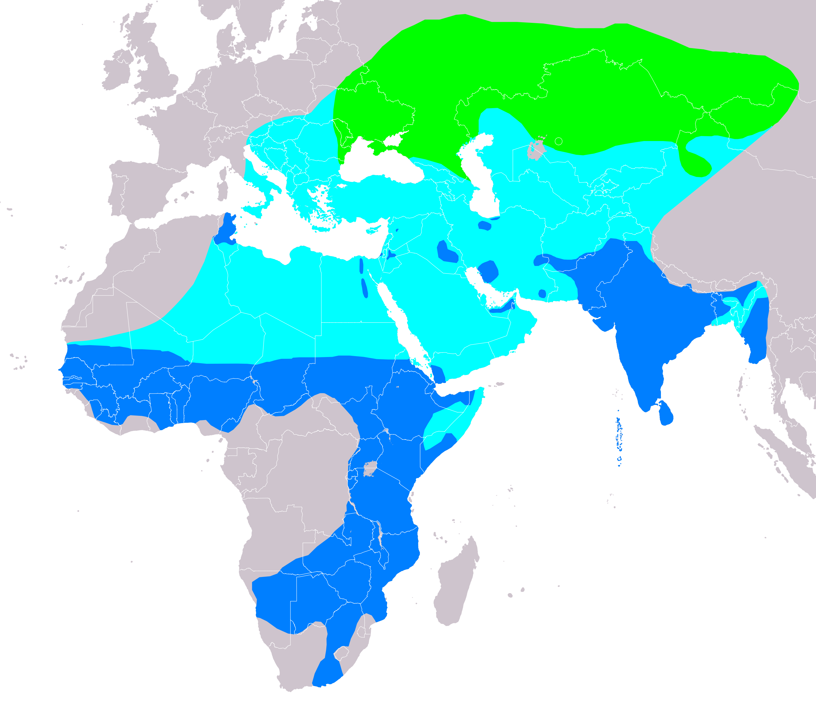 Distribution map of pallid harrier (Circus macrourus) according to IUCN version 2018.2 , Legend: Extant, breeding (#00FF00), Extant, passage (#00FFFF), Extant, non-breeding (#007FFF)